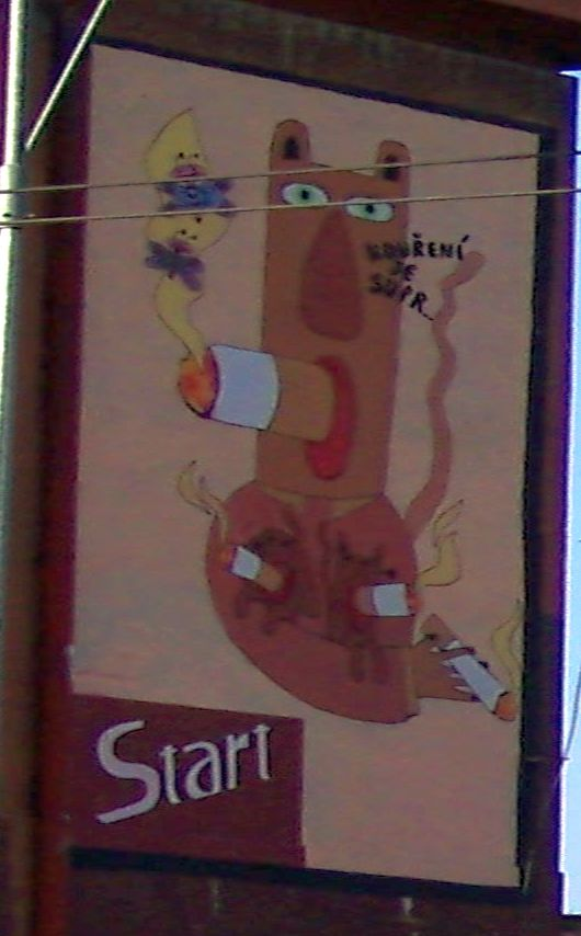 Prague-Libeň, the Czech Republic. A mural advertisement "Smoking is super" at the building Českomoravská 13, upon the art gallery Trafačka Arena.